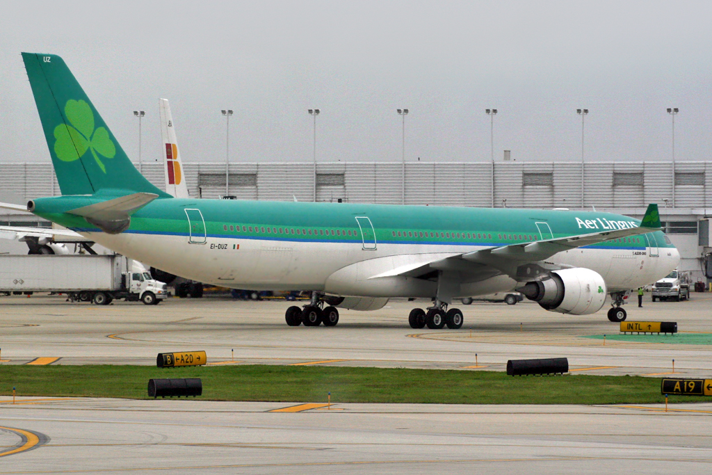 Chicago O Hare International KORD/ORD